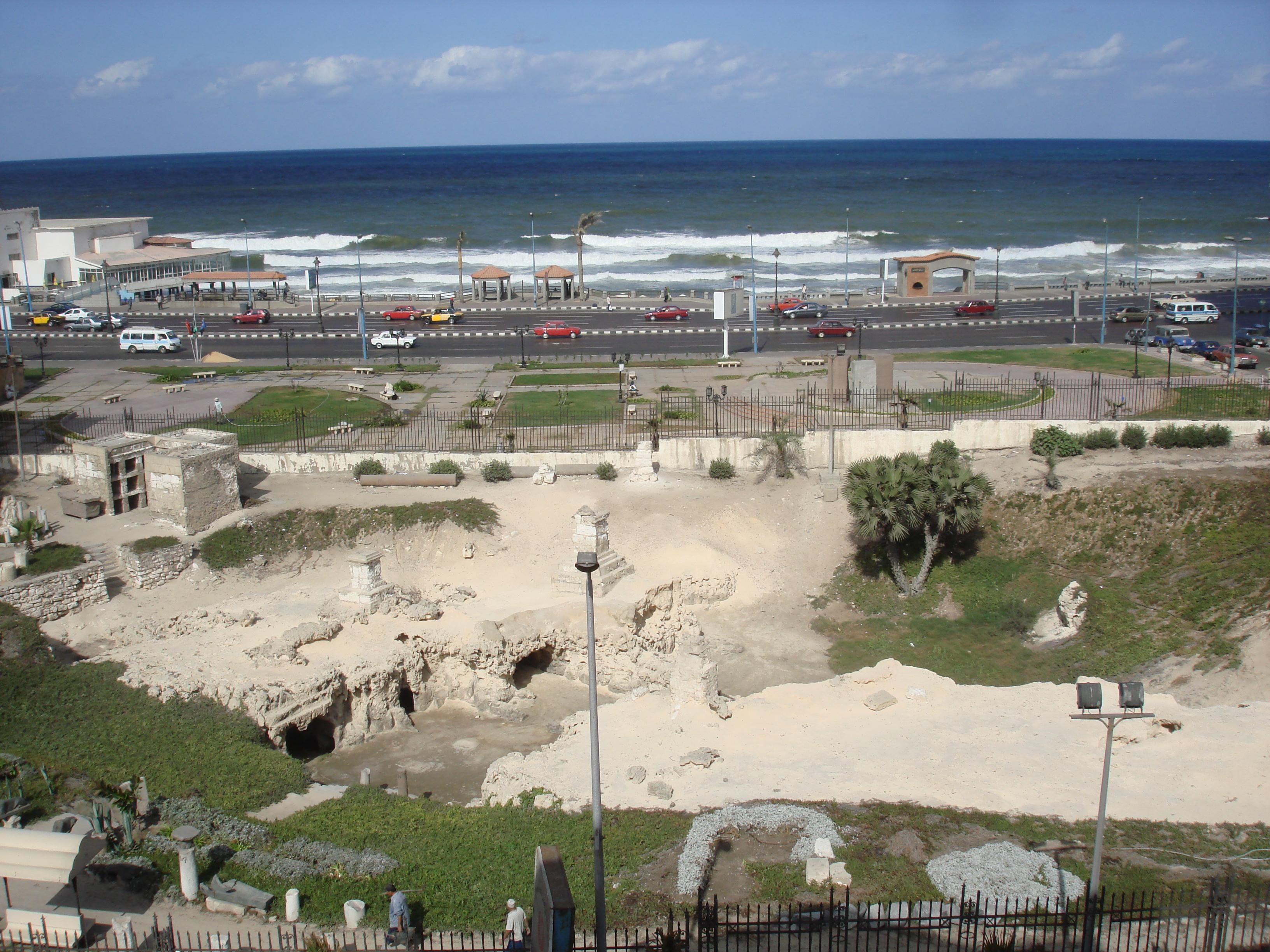 view from Saint Marc dorms